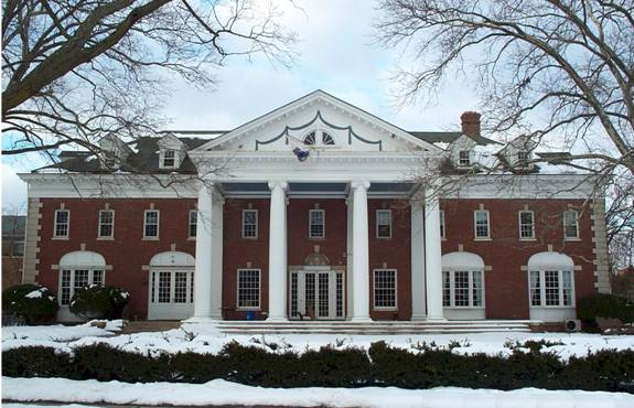 Winter view of the Colonial Club in Princeton, NJ.